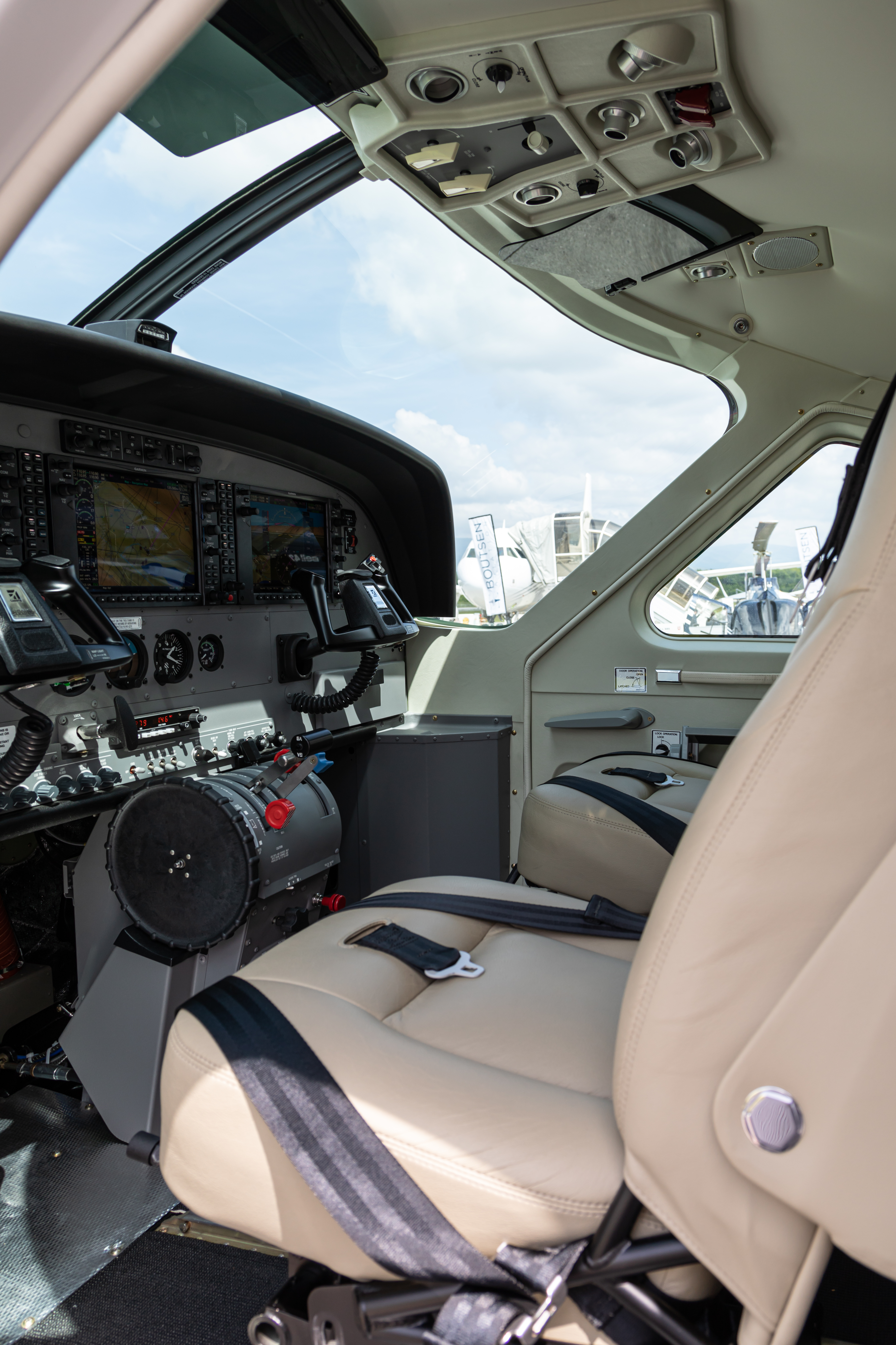 Cockpit of a Cessna 208B at EBACE 2019, Palexpo, Switzerland